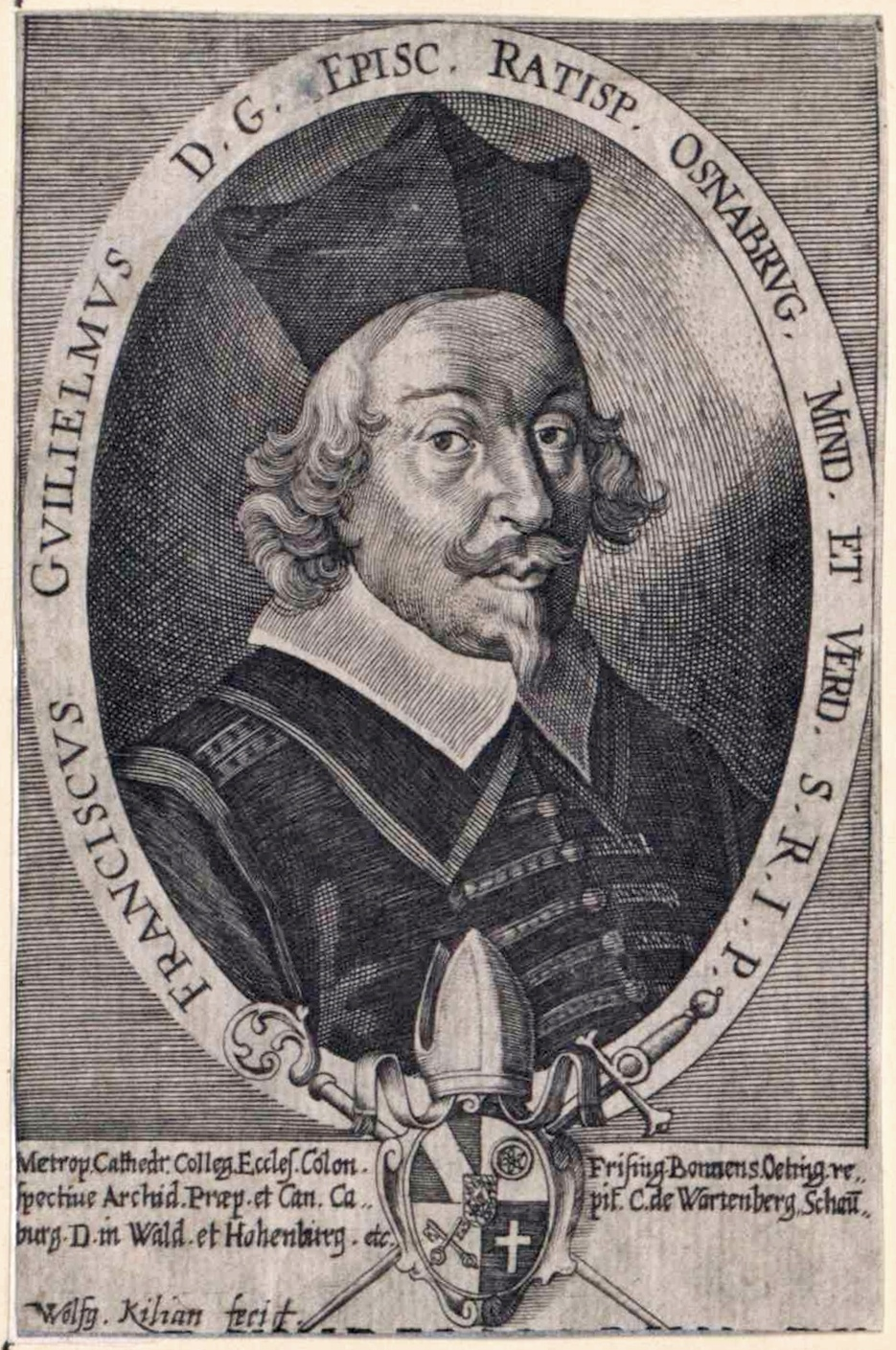 Kardinal Franz Wilhelm von Wartenberg (1593-1661)